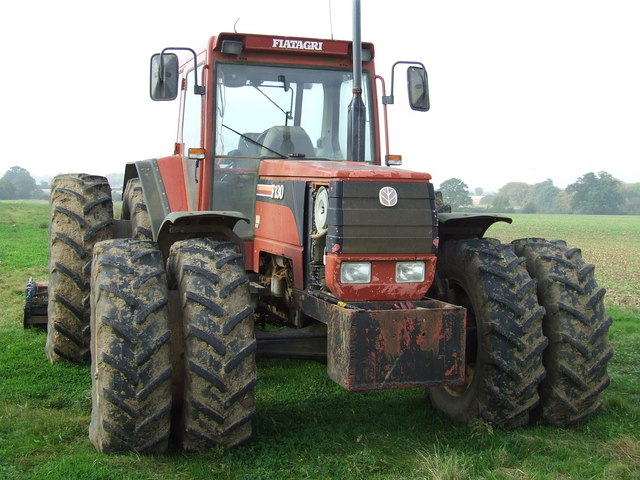 Twin-tired FiatAgri tractor parked up for the weekend near to St. Margaret South Elmham, Suffolk, Great Britain.